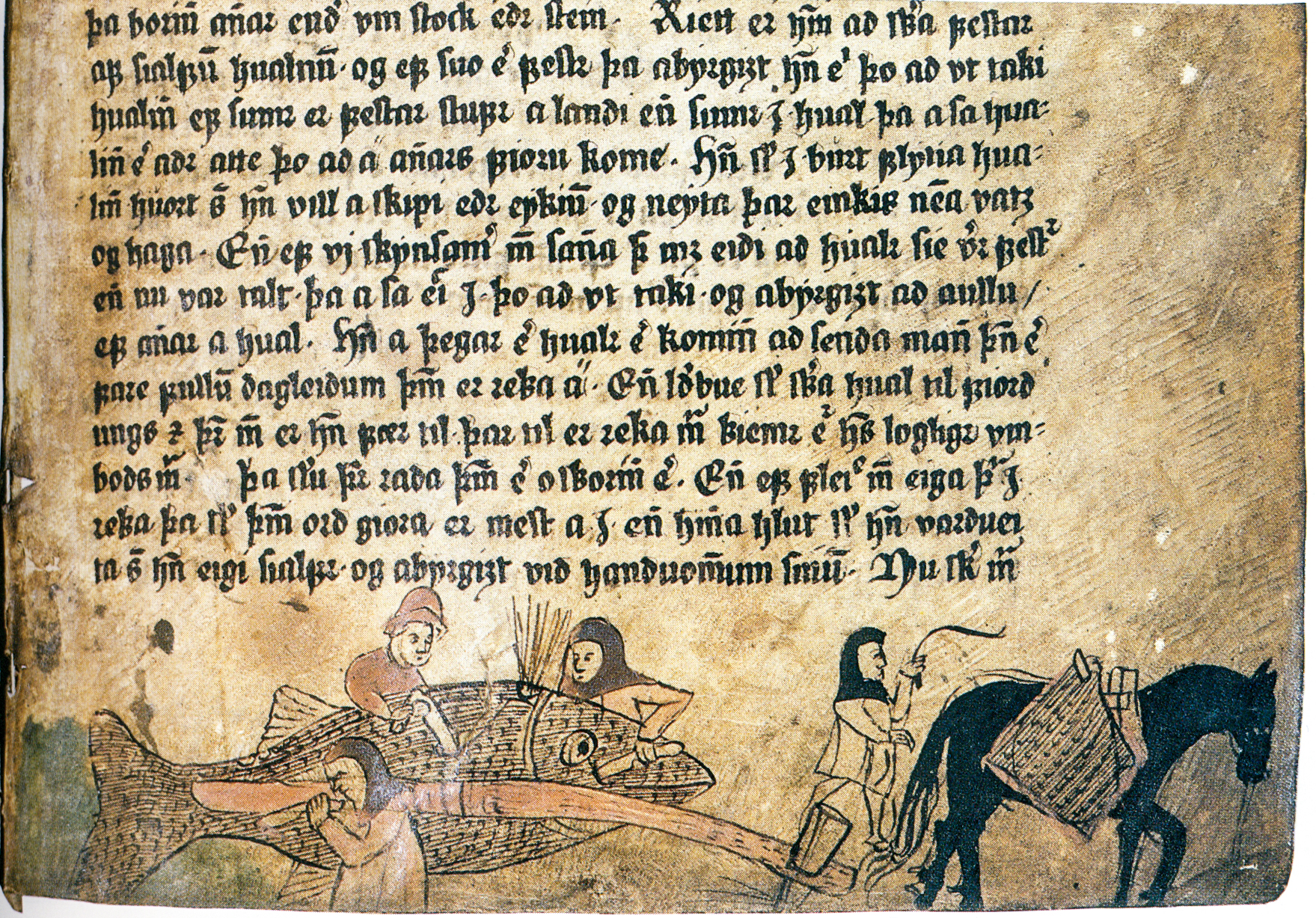 Illumination from AM345fol of Icelandic whalers processing a whale